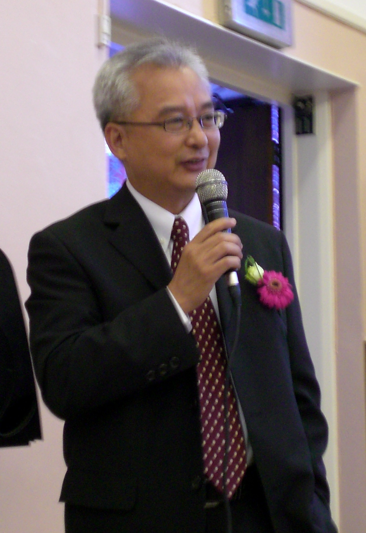 Taiwanese publisher Linden Lin from Linking Publishing at his daughter's wedding in 2007.